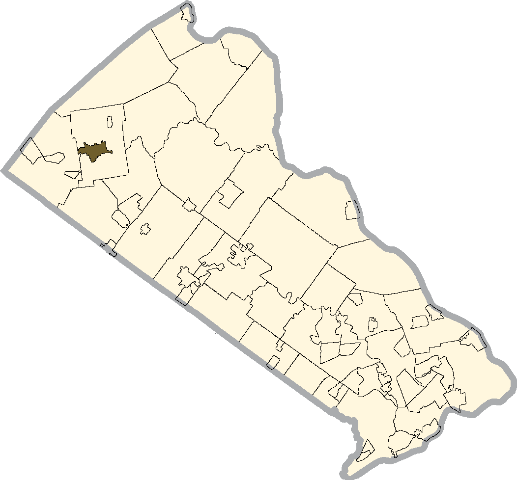 Quakertown shaded on the map of Bucks county, PA.